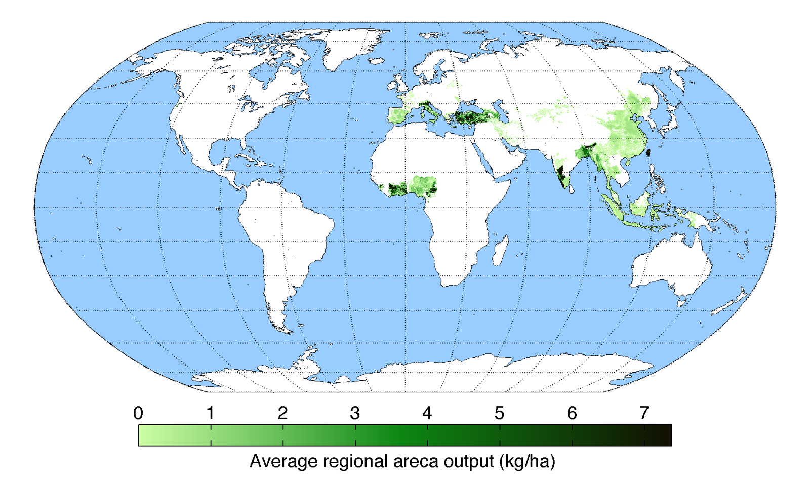 Map of areca production (average percentage of land used for its production times average yield in each grid cell) across the world compiled by the University of Minnesota Institute on the Environment with data from: Monfreda, C., N. Ramankutty, and J.A. Foley. 2008. Farming the planet: 2. Geographic distribution of crop areas, yields, physiological types, and net primary production in the year 2000. Global Biogeochemical Cycles 22: GB1022